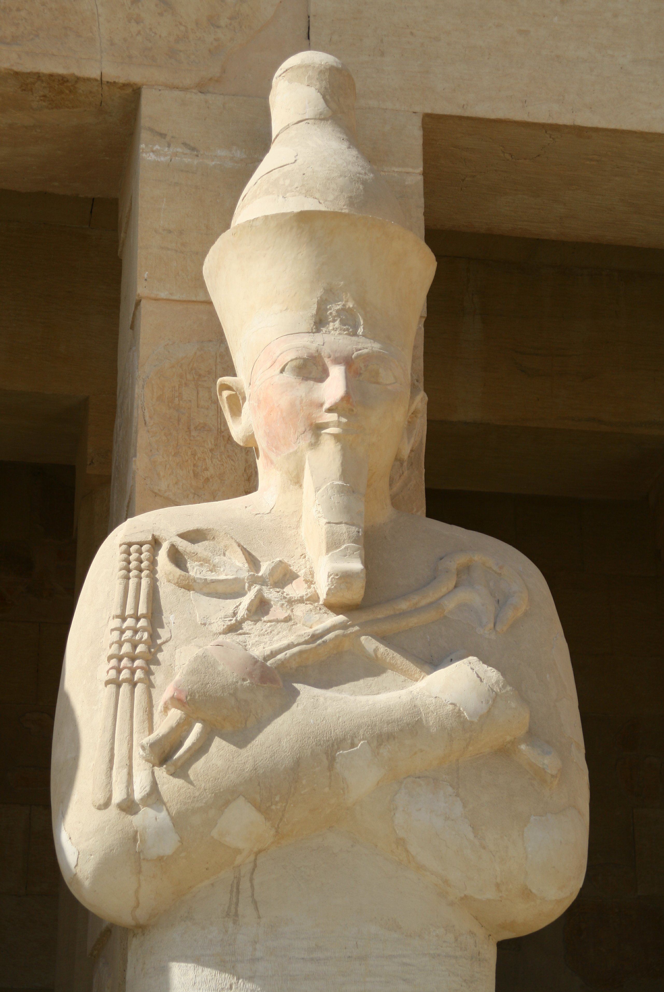 Dier El Bahari - Mortuary temple of Hatsepshut